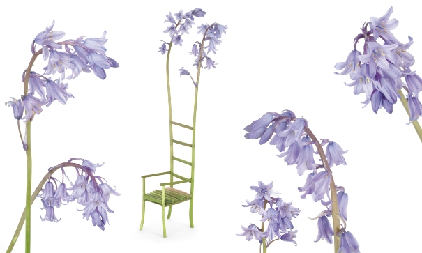 Chair made of bluebell flowers; used in the bestselling Fairie-ality book series by David Ellwand